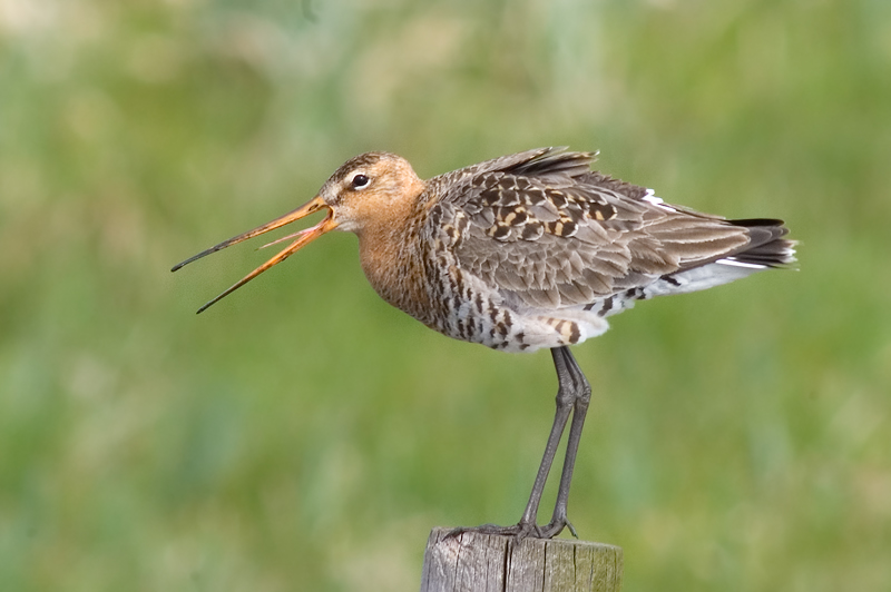 A Black-tailed Godwit in Waterland, Netherlands.